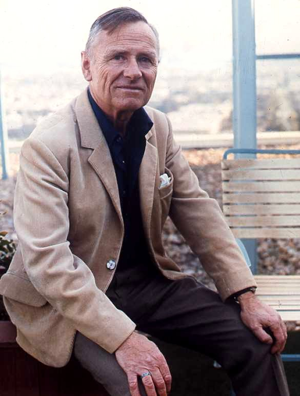 portrait